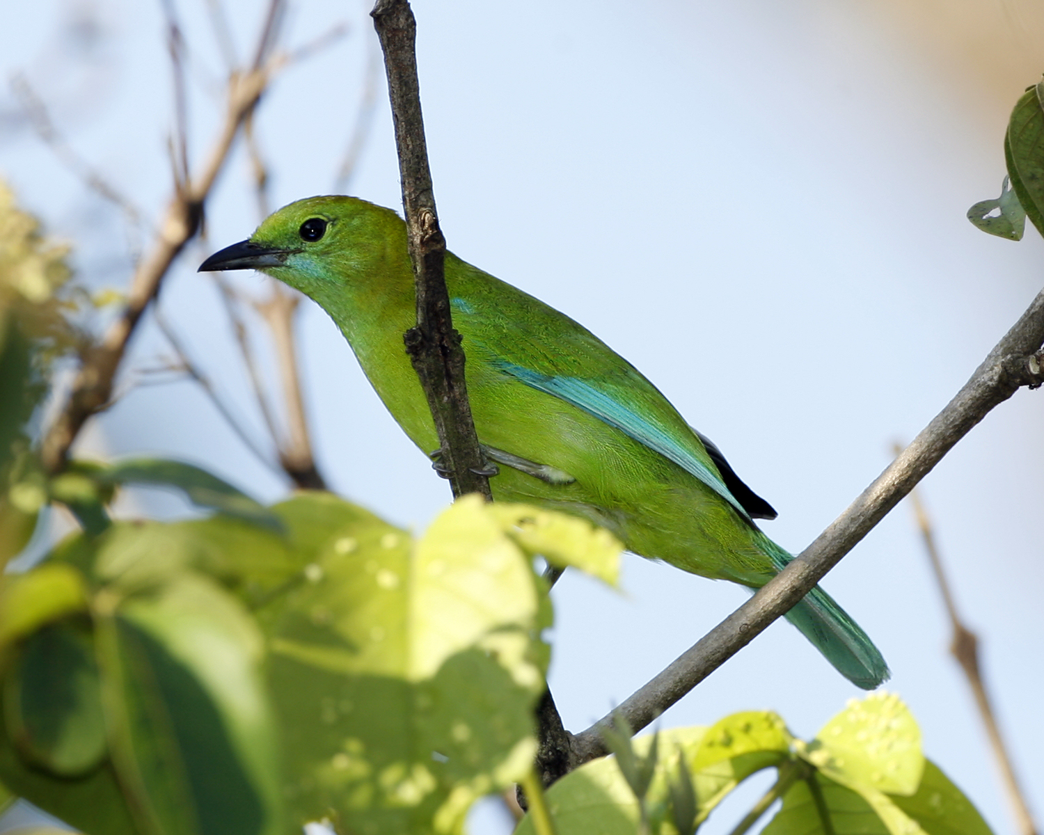 Blue-winged Leafbird, a female in Sime Forest, Central Catchment area, Singapore on 1 March 2006.